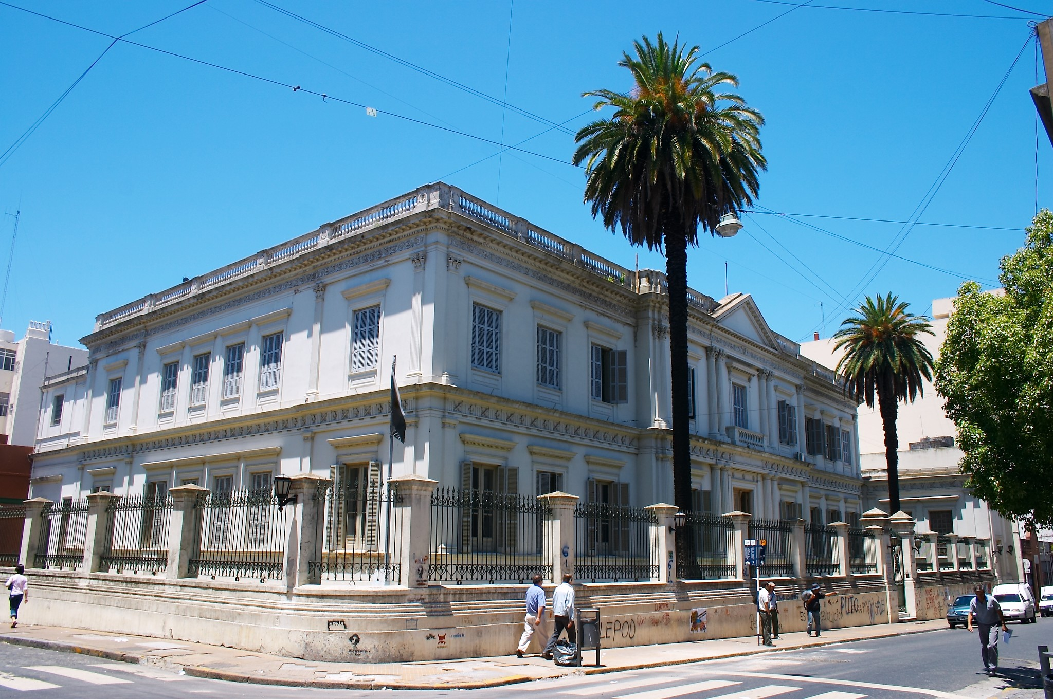 Old Casa de Moneda building, Buenos Aires, Argentina.